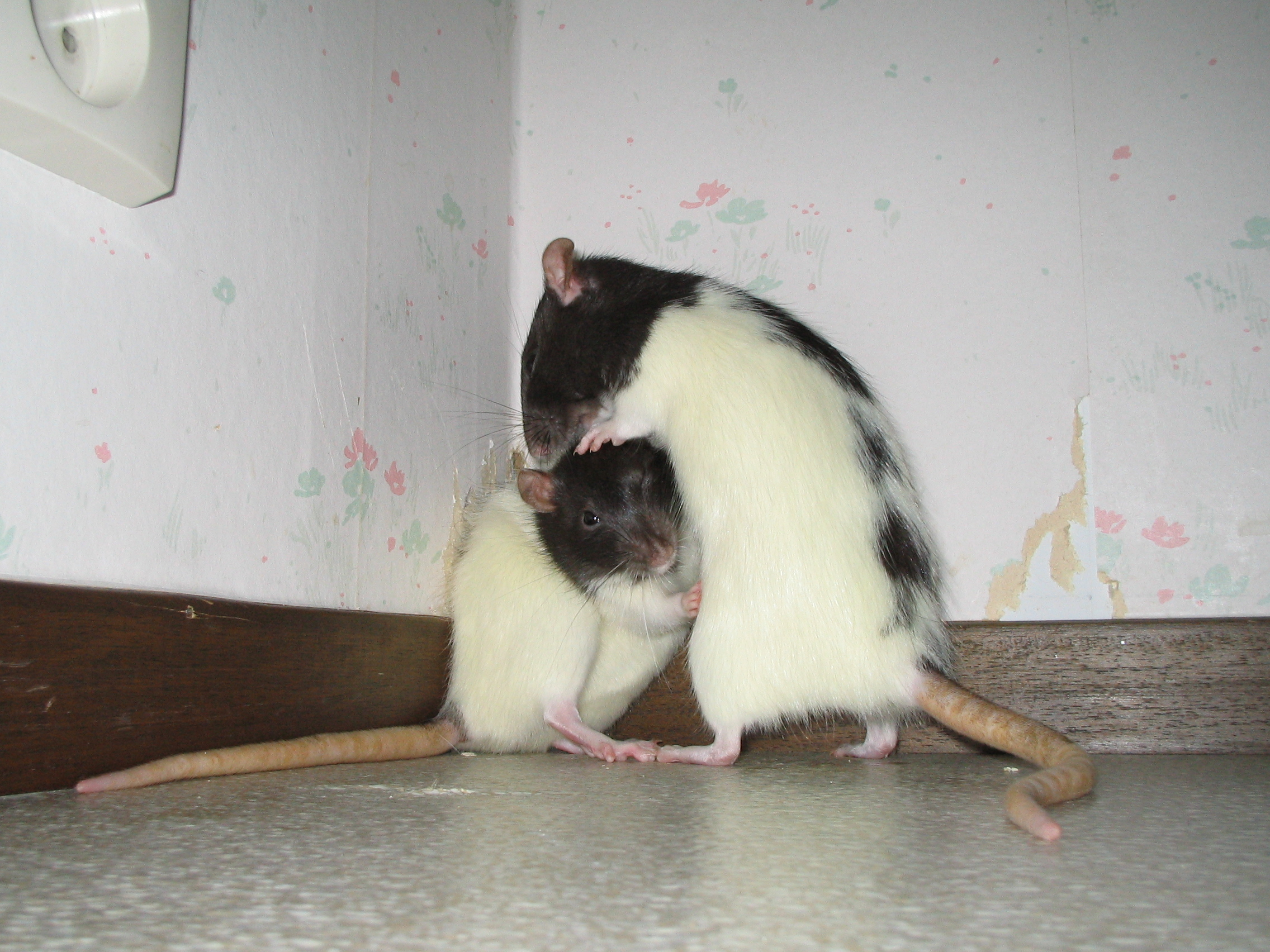 Picture of two female pet rats; taken by me.